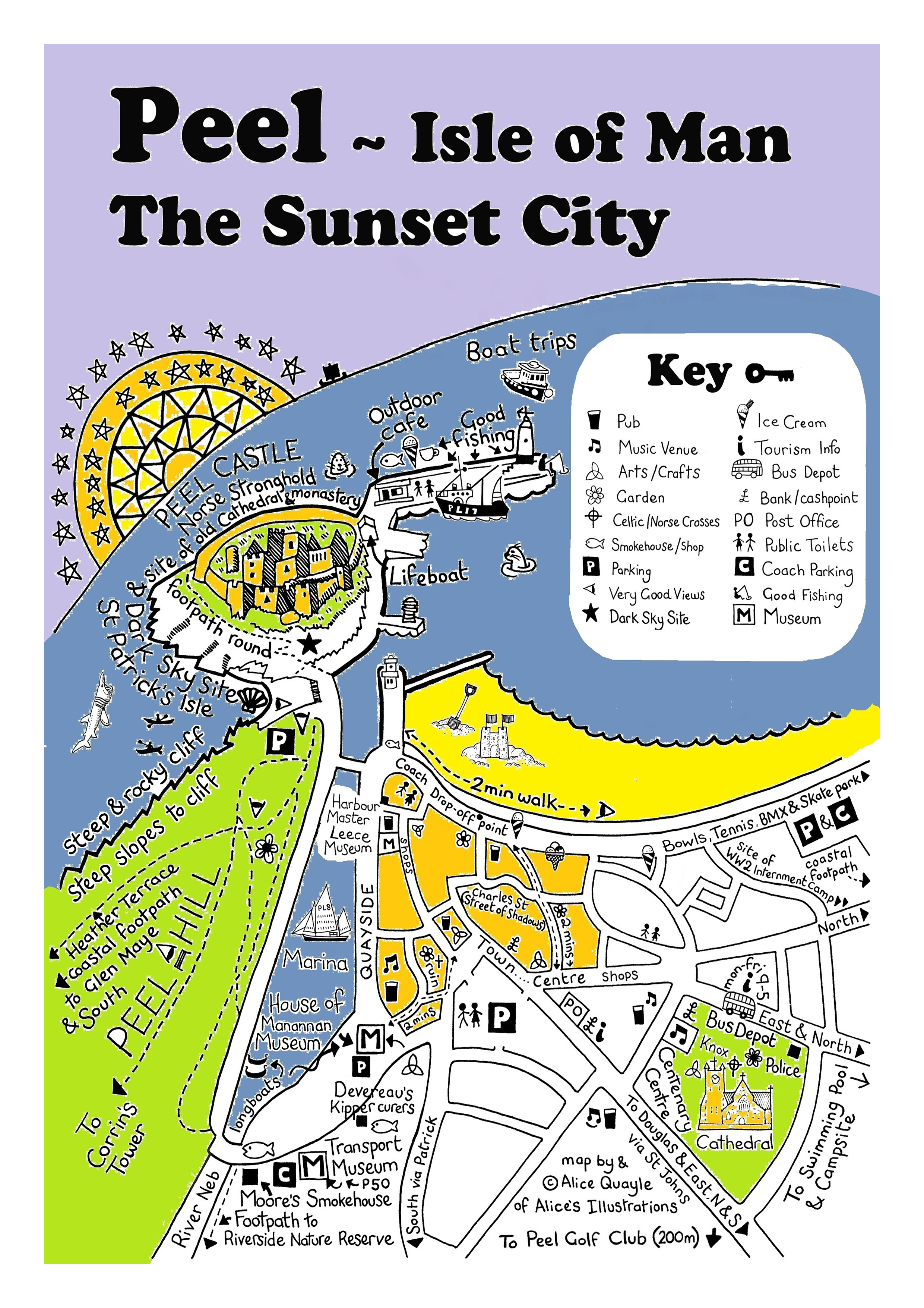 An illustrated map of Peel, Isle of Man. Created 2016 by Alice Quayle for Peel Town Commissioners to illustrate some of the key or useful features of the town.